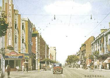 Avenue Joffre (now Huaihai Rd.) in the French Concession, Shanghai in the 1930s (1932 or later: Cathay Theatre was built in 1932)